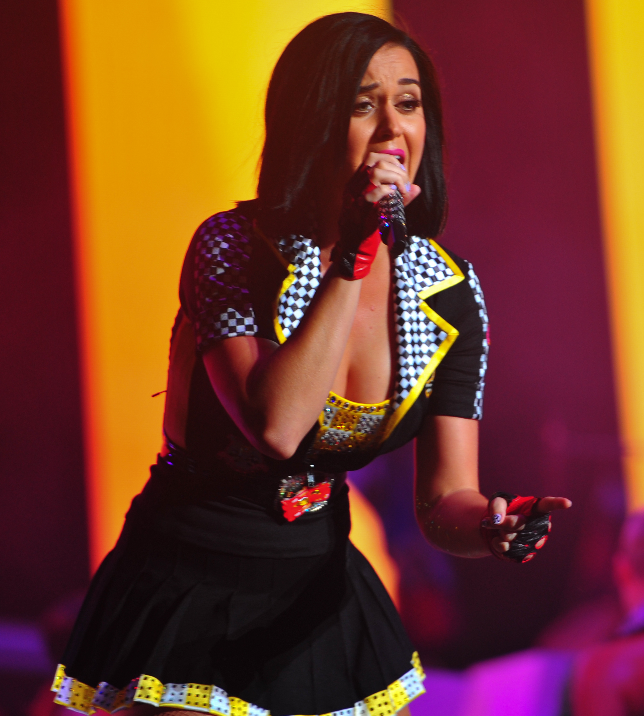 Katy Perry performing in California Dreams Tour, September 2012.